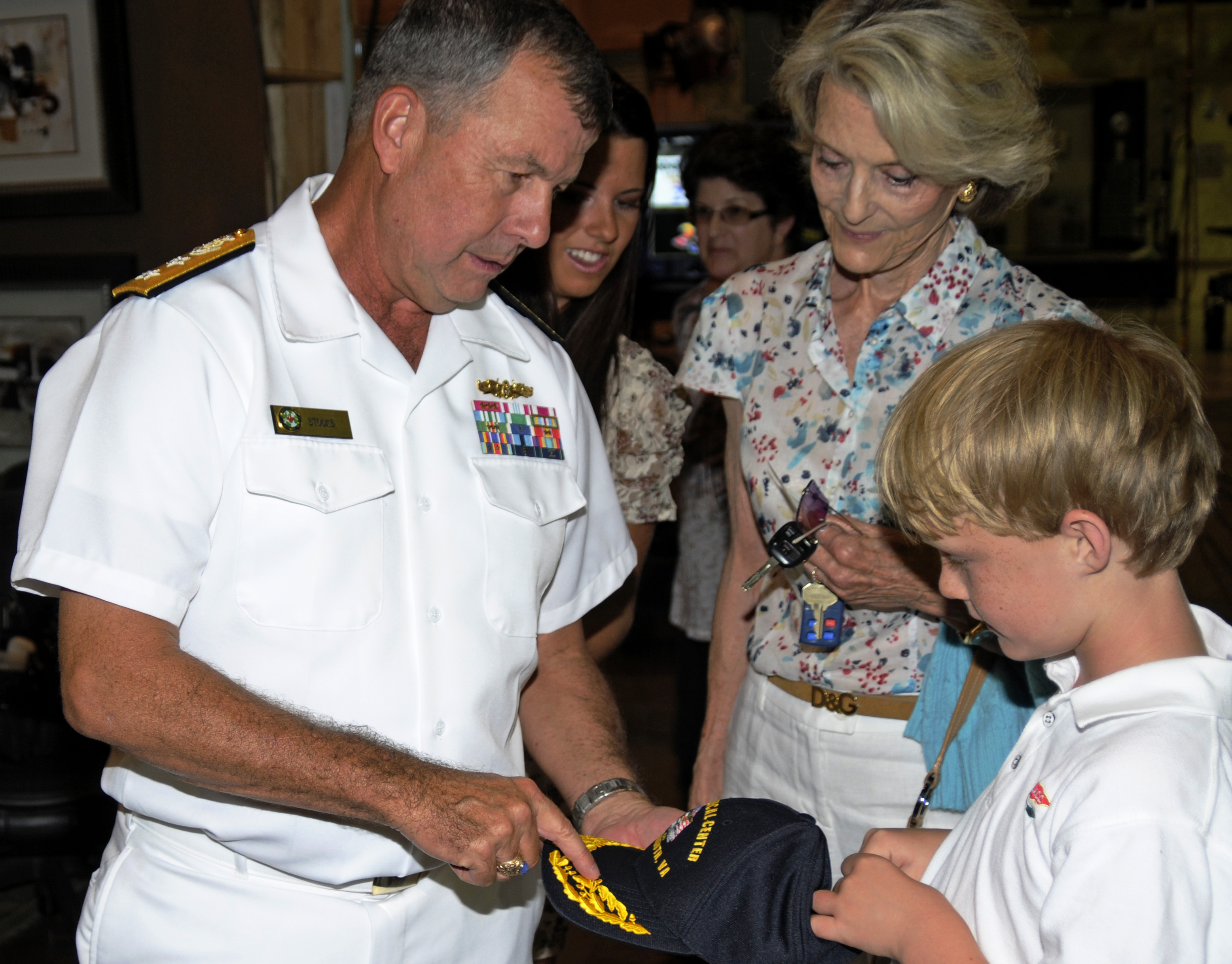 LOS ANGELES (July 28, 2011) Rear Adm. Alton Stocks, commander of Navy Medicine East and Naval Medical Center Portsmouth, presents a command ball cap to the grandson of actress Constance Towers during a visit to the set of the television show General Hospital as part of Los Angeles Navy Week 2011, one of 21 Navy Weeks this year across the country. Navy Weeks are intended to showcase the investment Americans have made in their Navy and increase awareness in cities that do not have a significant Navy presence. (U.S. photo by Mass Communication Specialist 1st Class Brett Custer/Released)